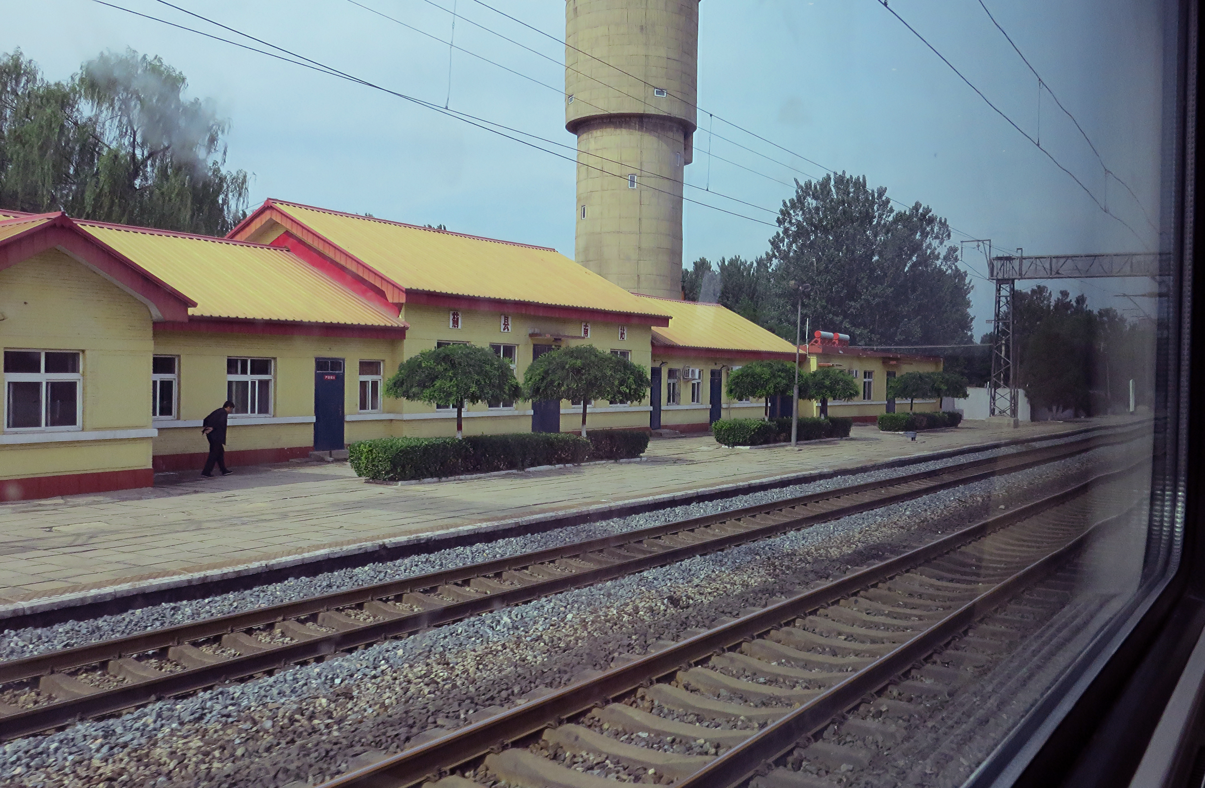 Taken from Y509. Some corrections were made in response to the green glass of BSPs.